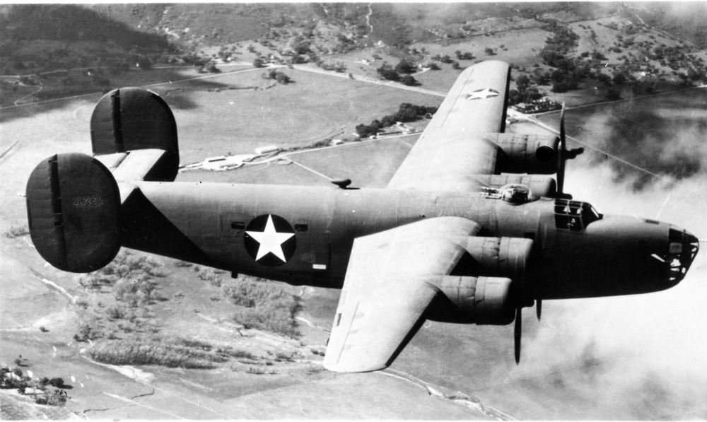 PictionID:40972199 - Title:Liberator Consolidated B-24D - Catalog:15_002721 - Filename:15_002721.tif - Image from the Charles Daniels Photo Collection album "US Army Aircraft."----PLEASE TAG this image with any information you know about it, so that we can permanently store this data with the original image file in our Digital Asset Management System.----SOURCE INSTITUTION: San Diego Air and Space Museum Archive